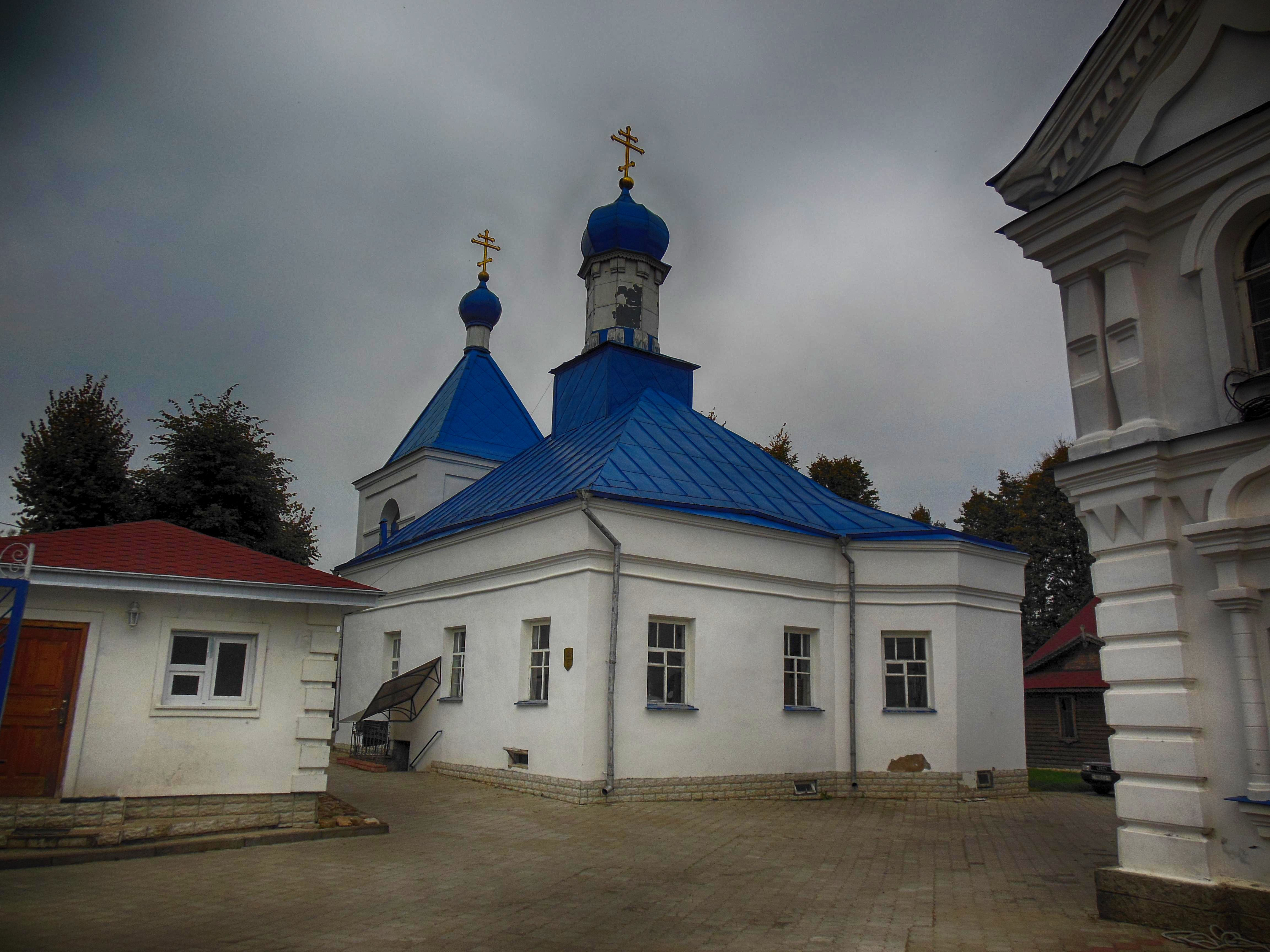 Church of the Exaltation of the Holy Cross in Mogilev, Belarus Беларуская (тарашкевіца): Крыжаўзьдзьвіжанская царква. г. Магілёў This is a photo of Belarusian heritage monument. Reference number: 512Г000011 ( WLM)